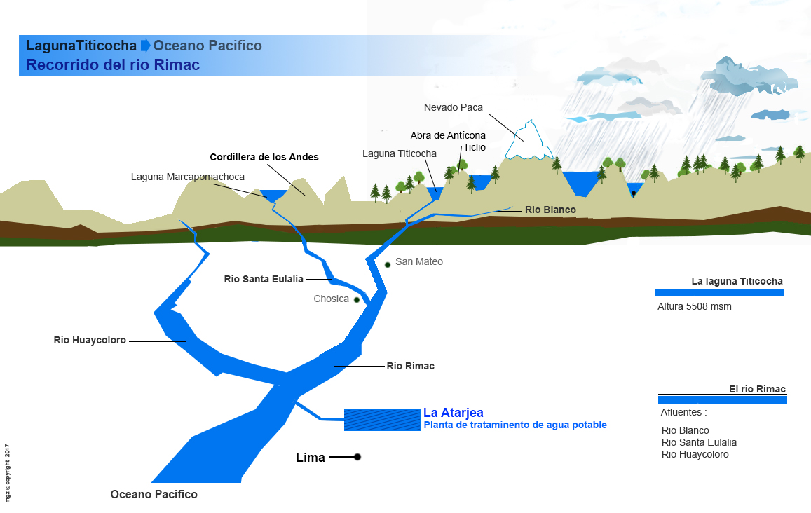 El rio Rimac